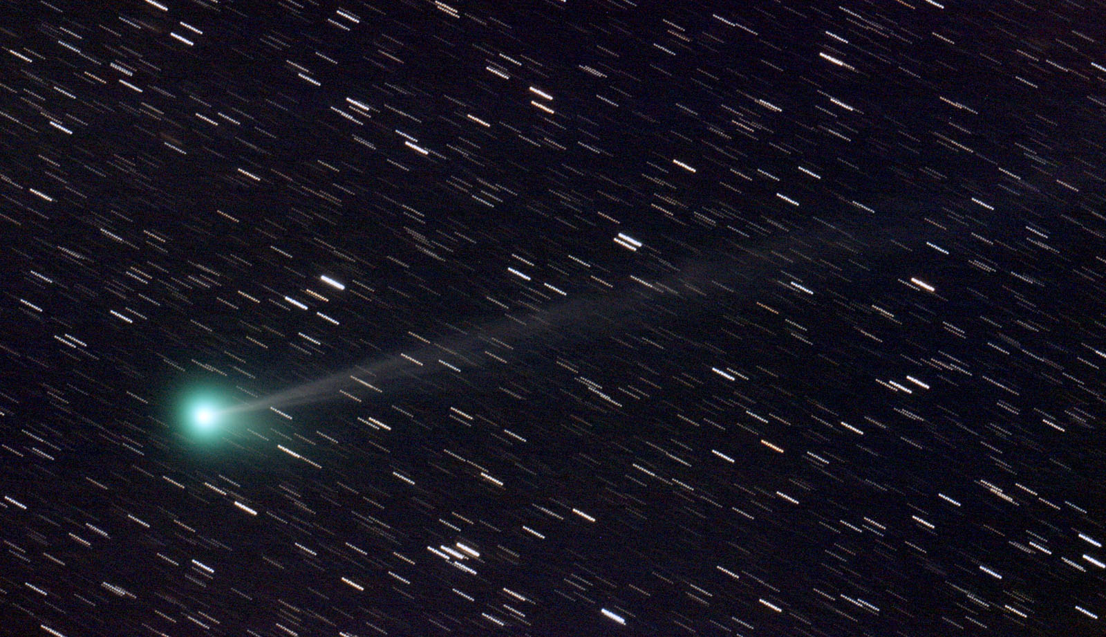 Comet C/2009 R1 McNaught before the dawn